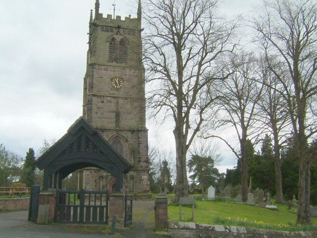 Tower without the church.